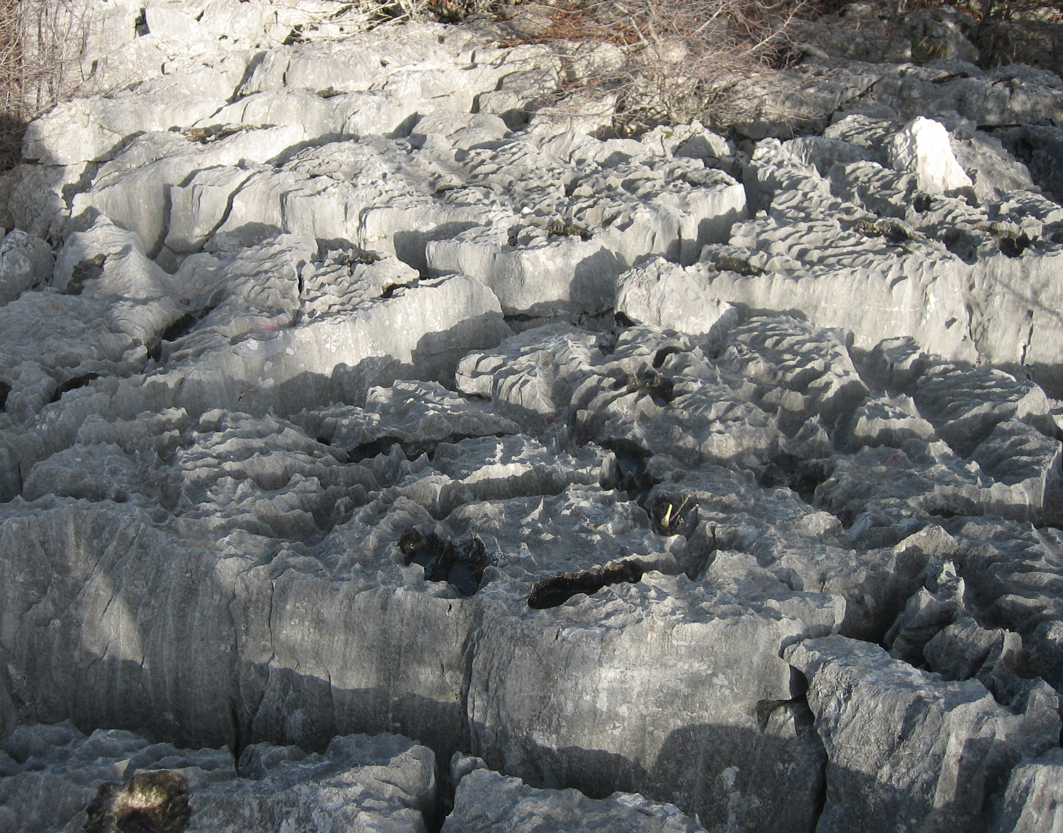 A rocky landscape in Dalmatia, Croatia